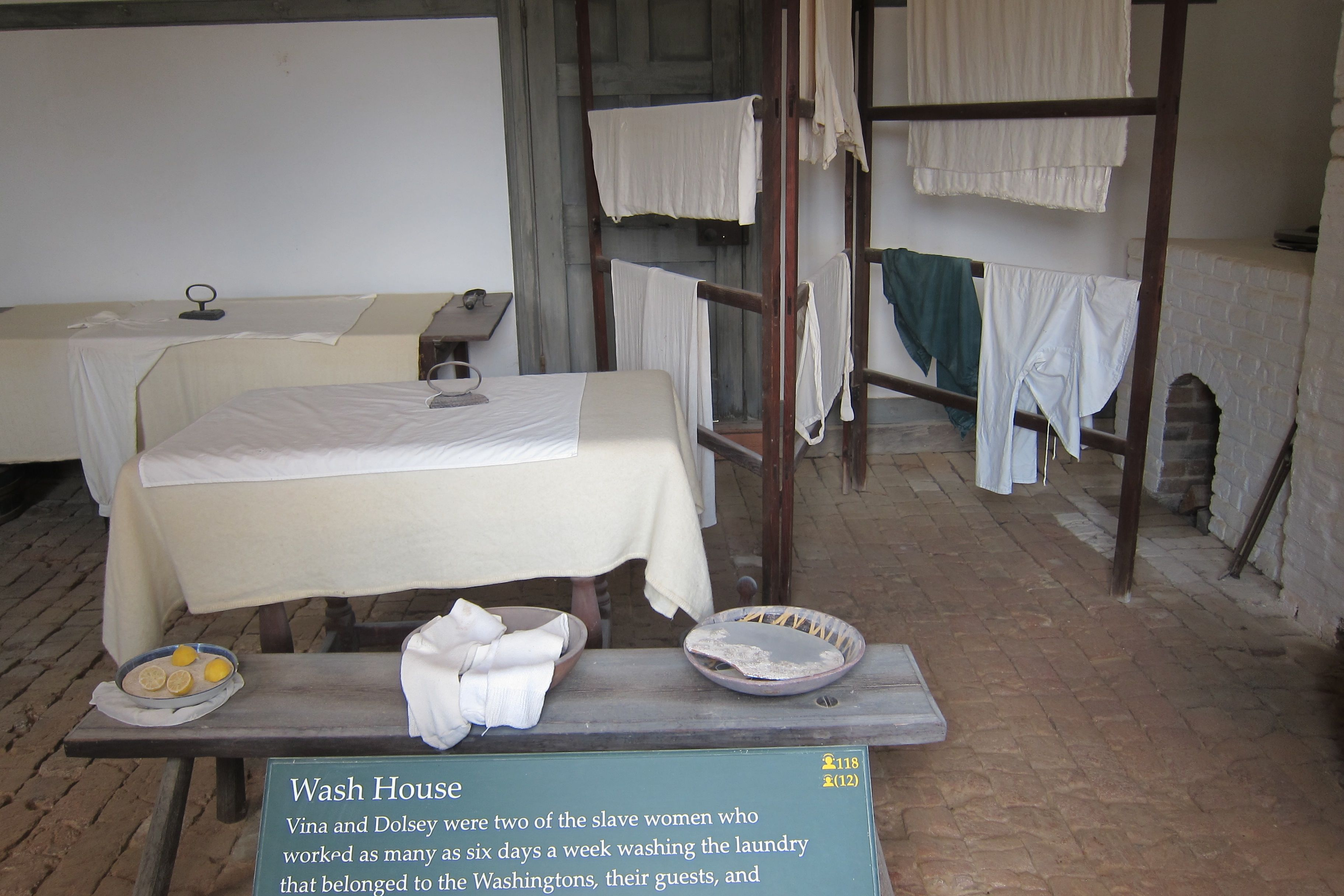 Mount Vernon Estate cloth laundry room of slavery staff accommodation.